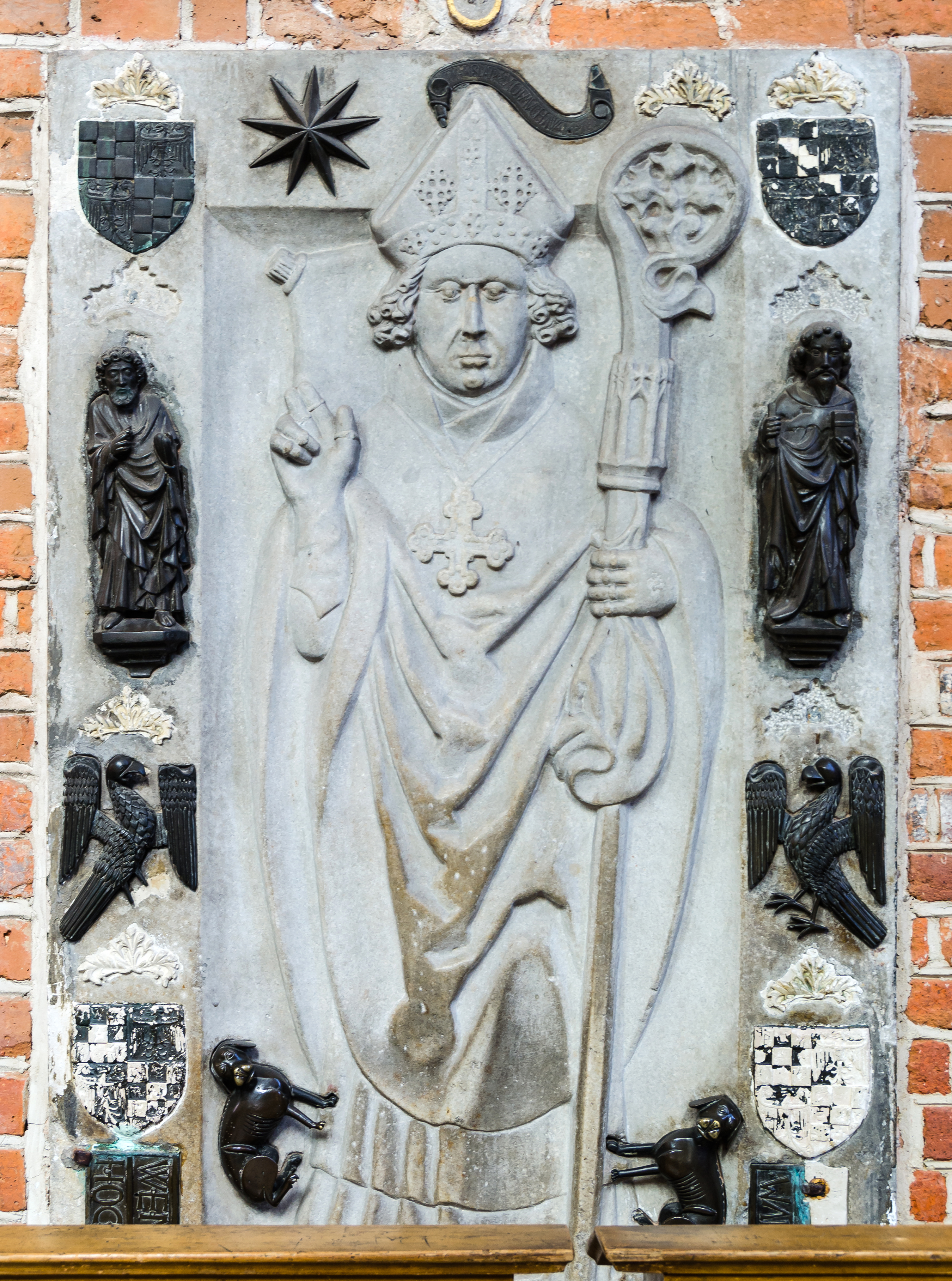 Saints James and Agnes Basilica in Nysa, Wenceslaus II of Legnica tombstone